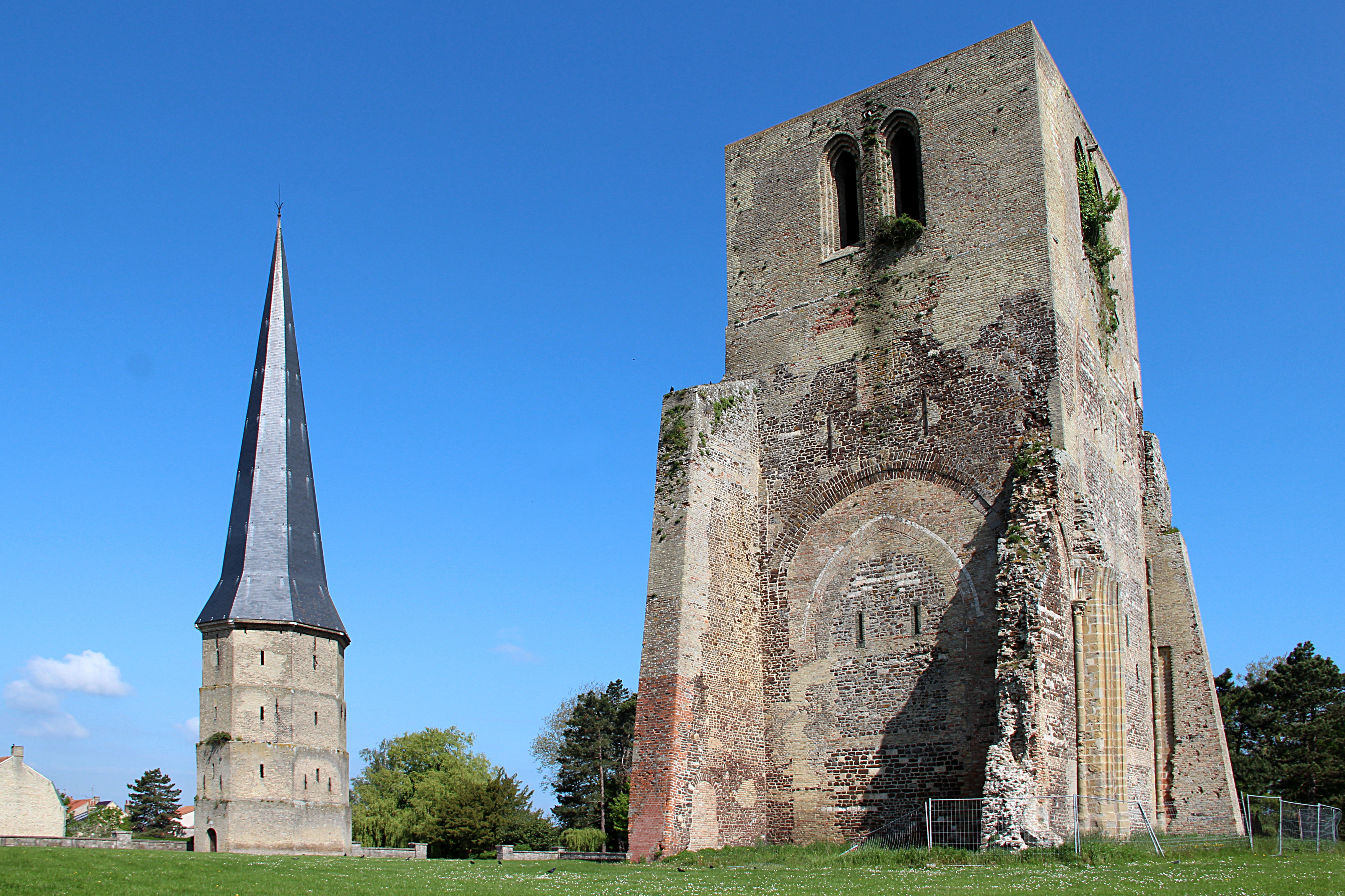 Towers of the former Saint-Winoc abbey built, destroyed and rebuilt between the 13th and 18th centuries in: Bergues (Nord department, France).